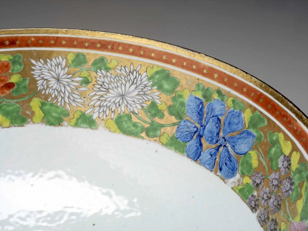 Punchbowl, enamelled porcelain. 17 x 44.8 x 44.8 com. Australian National Maritime Museum Collection. 'View of the town of Sydney in New South Wales', c 1820.